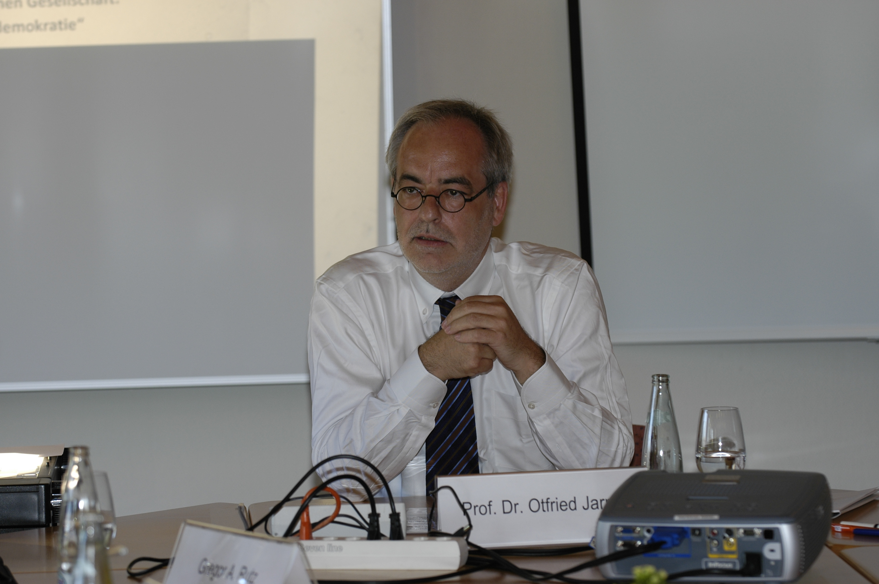 Prof. Otfried Jarren